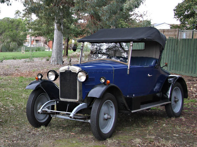 1925 Rover 9 open 2-seater Rover Car Club of Australia RCCA 50th Anniversary Display 2008